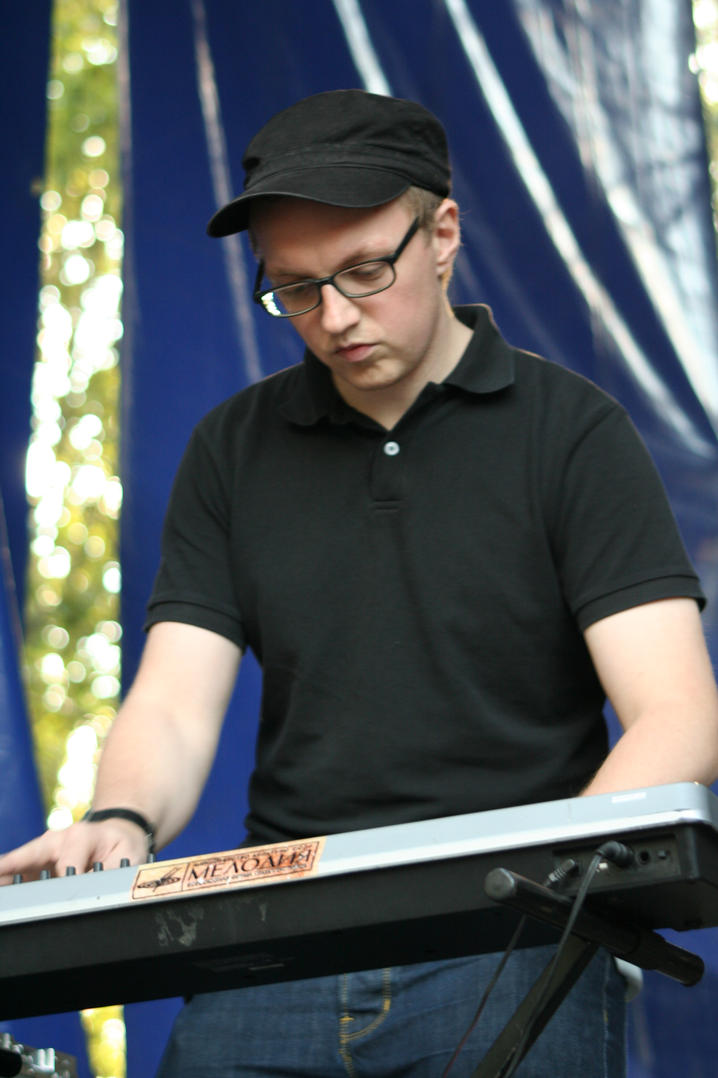 Cool Kids of Death, Off Festival, Mysłowice